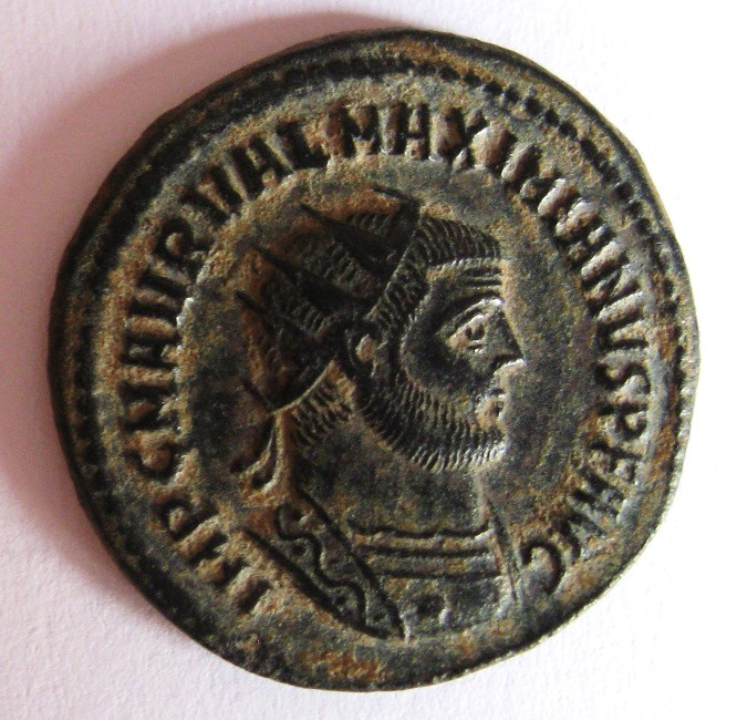 Ancient Roman Coin. Itamar Atzmon's Collection